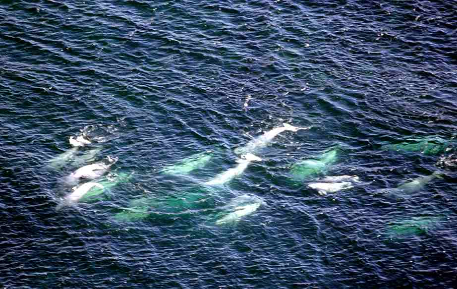 School of White Whales or Belugas (Delphinapterus leucas) in Churchill River near Hudson Bay (Canada).